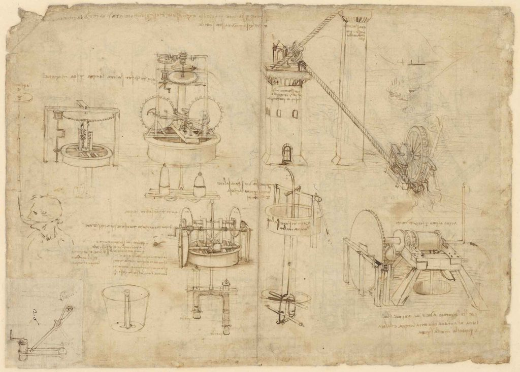 Leonardo da Vinci, drawings of machines